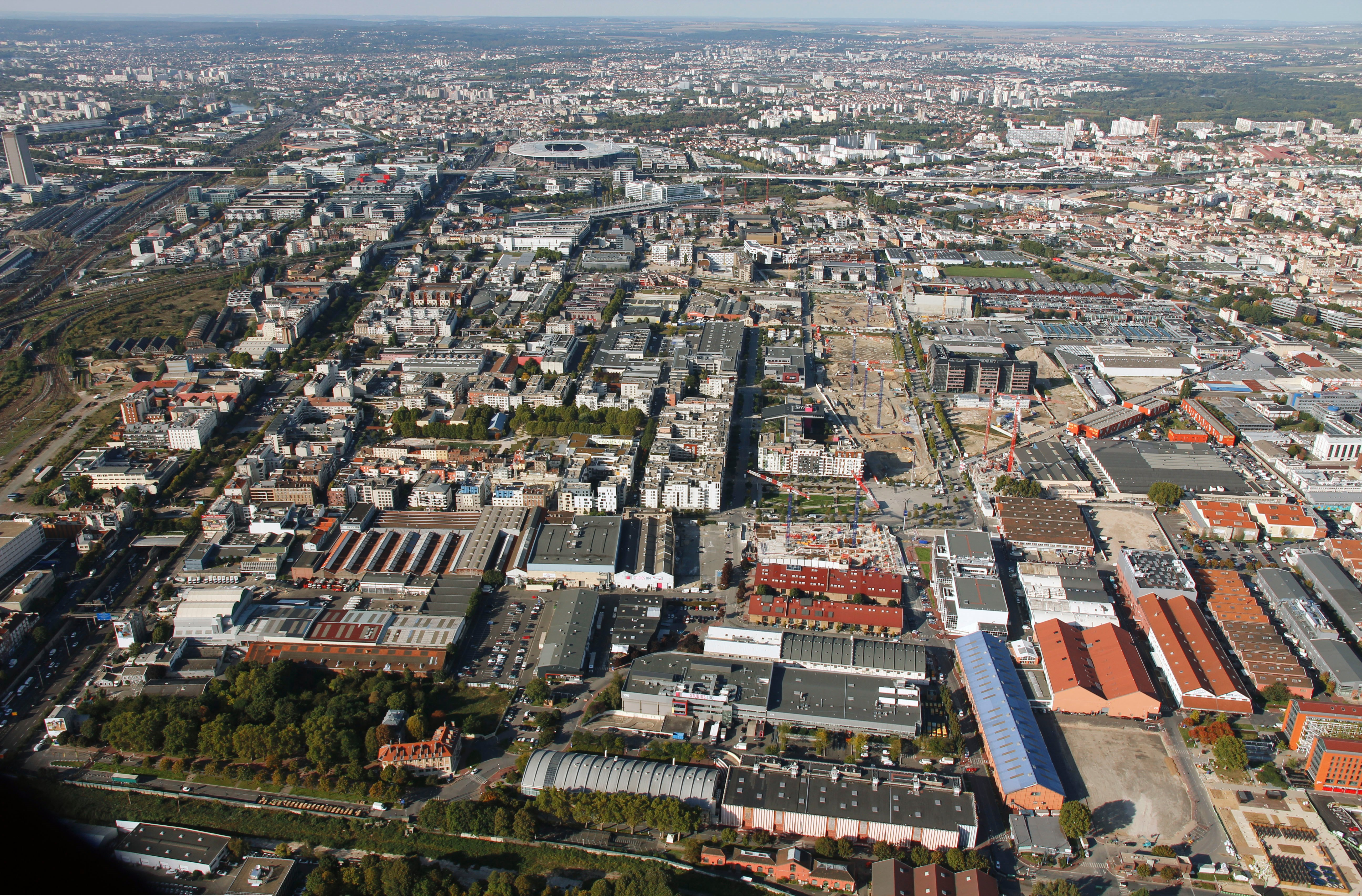 La Plaine Saint-Denis. Au premier plan les Magasins Généraux, au second plan la place du Front Populaire et le futur campus Condorcet et à l'arrière plan le stade de France et la ville de Saint-Denis.